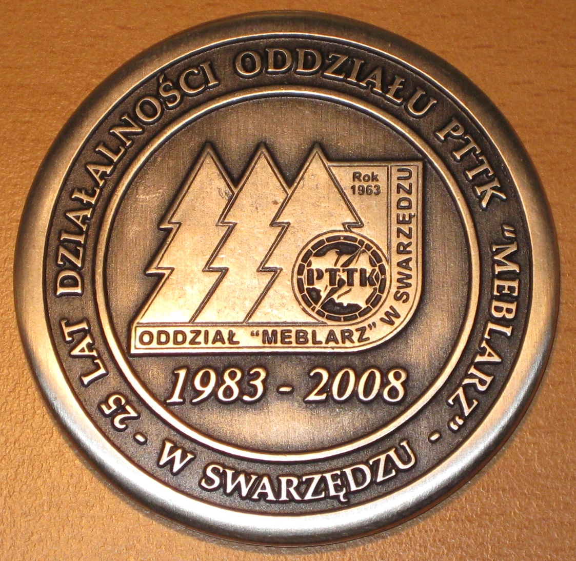 PTTK "Meblarz" in Swarzędz - 25 years (jubilee medal)